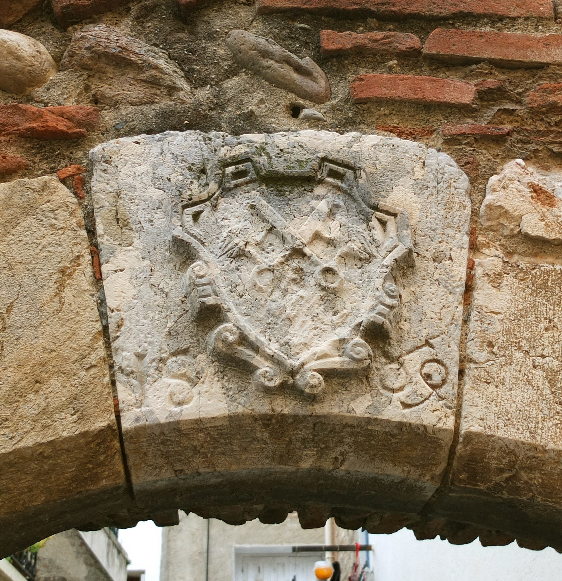 Keystone dated 1569, Archway in rue Constantin, Elne, France